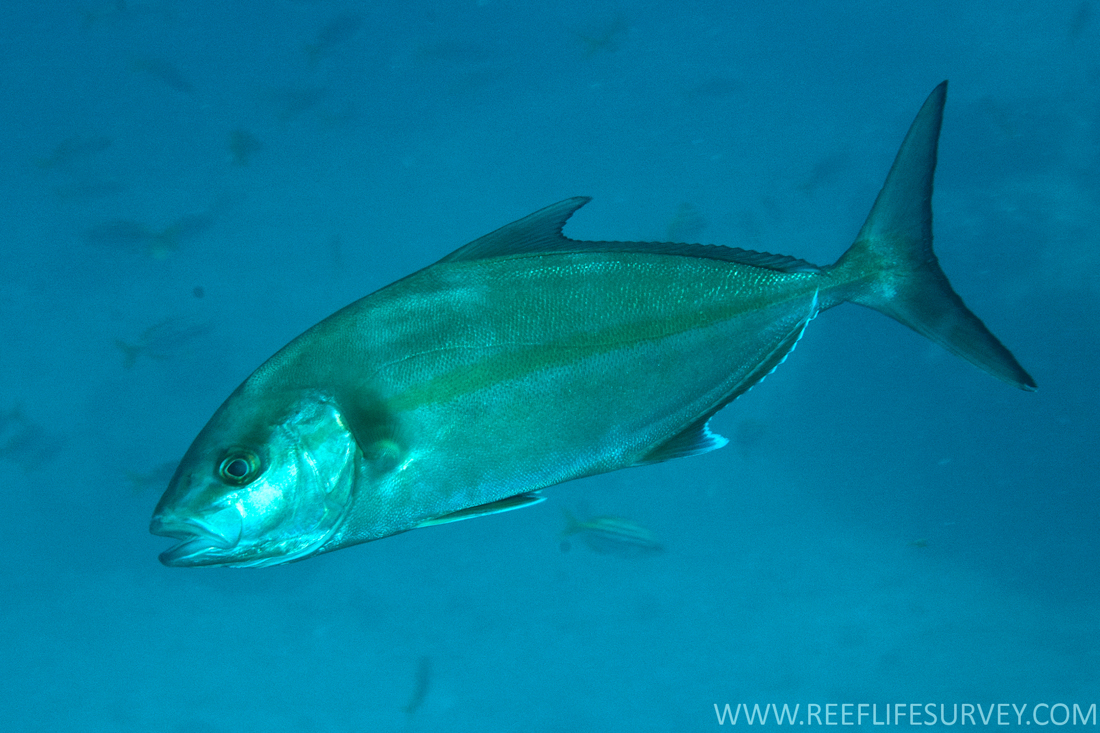 An Amberjack, Seriola dumerili, at North Solitary Island, New South Wales